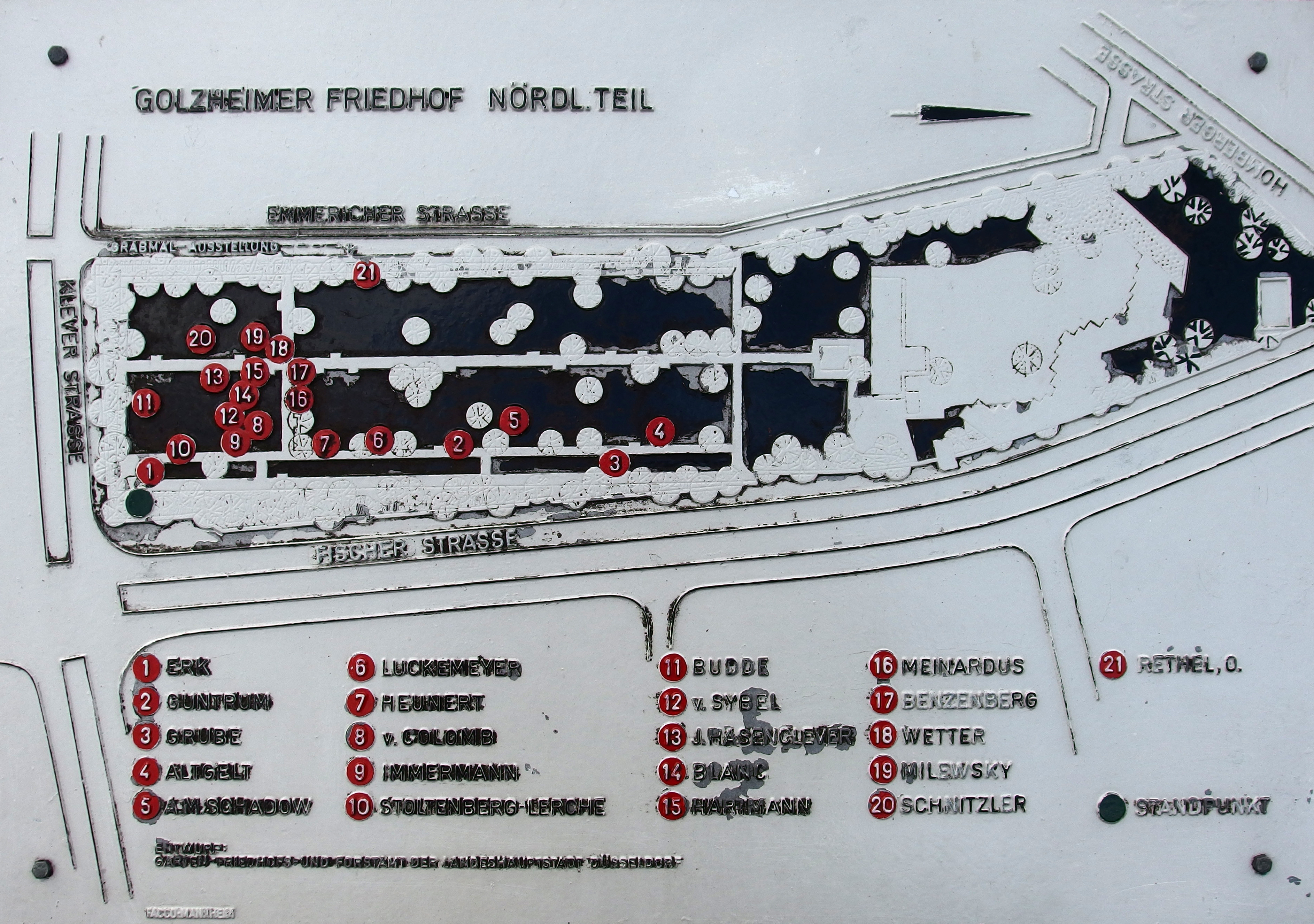 Golzheimer Friedhof Düsseldorf Nördlicher Teil Lageplan